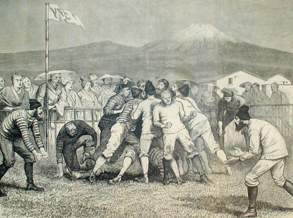 Scene of a rugby football match in Japan.